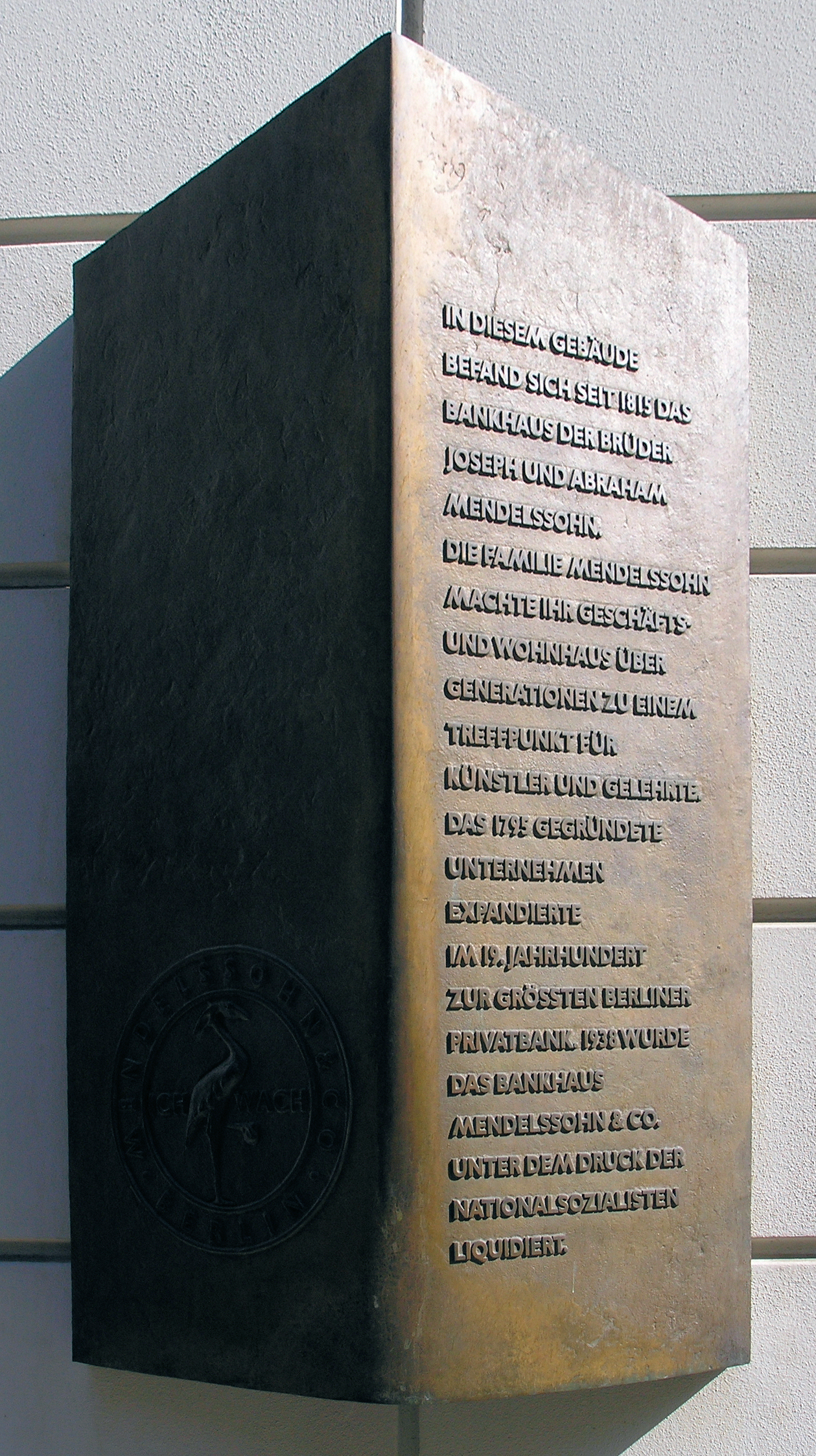 Memorial plaque, Bankhaus Mendelssohn, Jägerstraße 51, Berlin-Mitte, Germany Koordinate:52°30′52″N 13°23′42″E / 52.51444°N 13.395°E